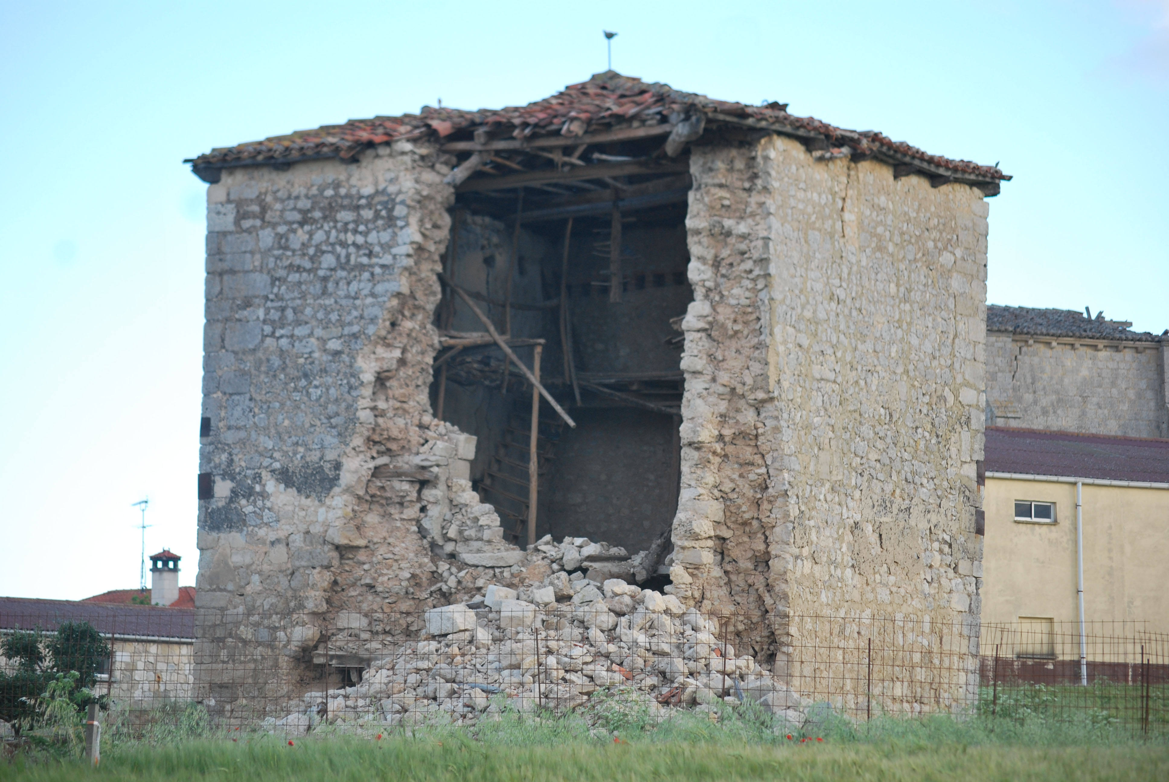 Tower of Quintanaortuño (XVI century). Gate side.